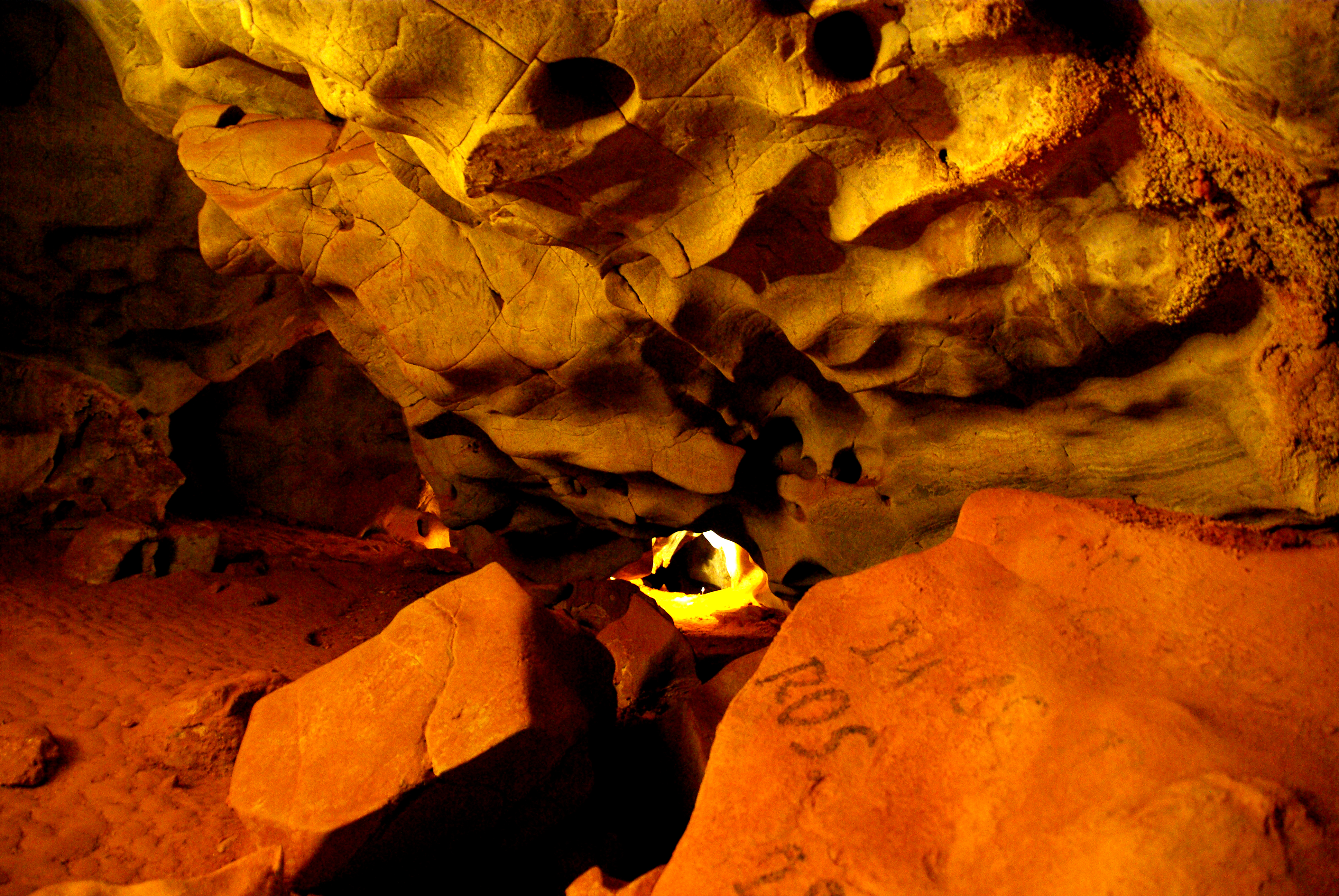 Ubajara (2)